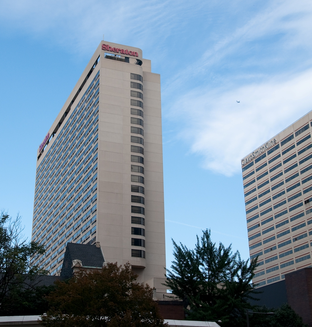 Philadelphia Sheraton Hotel